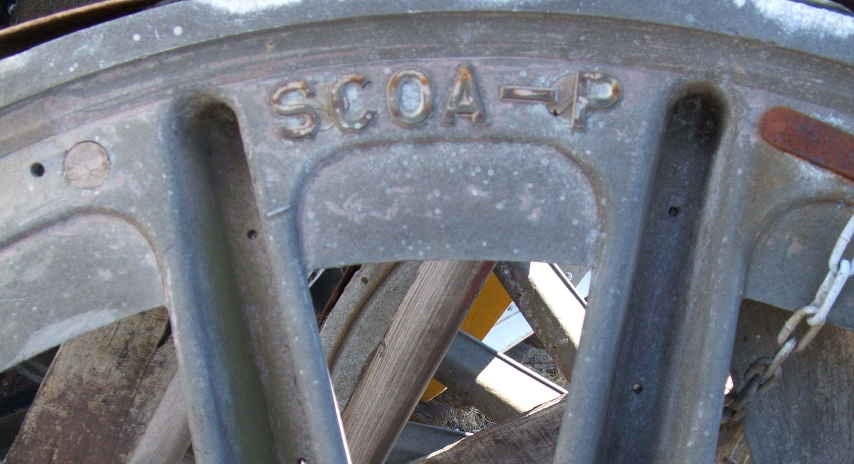 Detail view of a 'SCOA P' driving wheel from a Victorian Railways J class 2-8-0. photo by zzrbiker